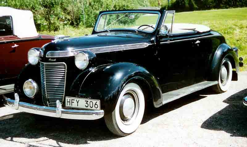 Chrysler Royal Series C16 Convertible Coupé 1937